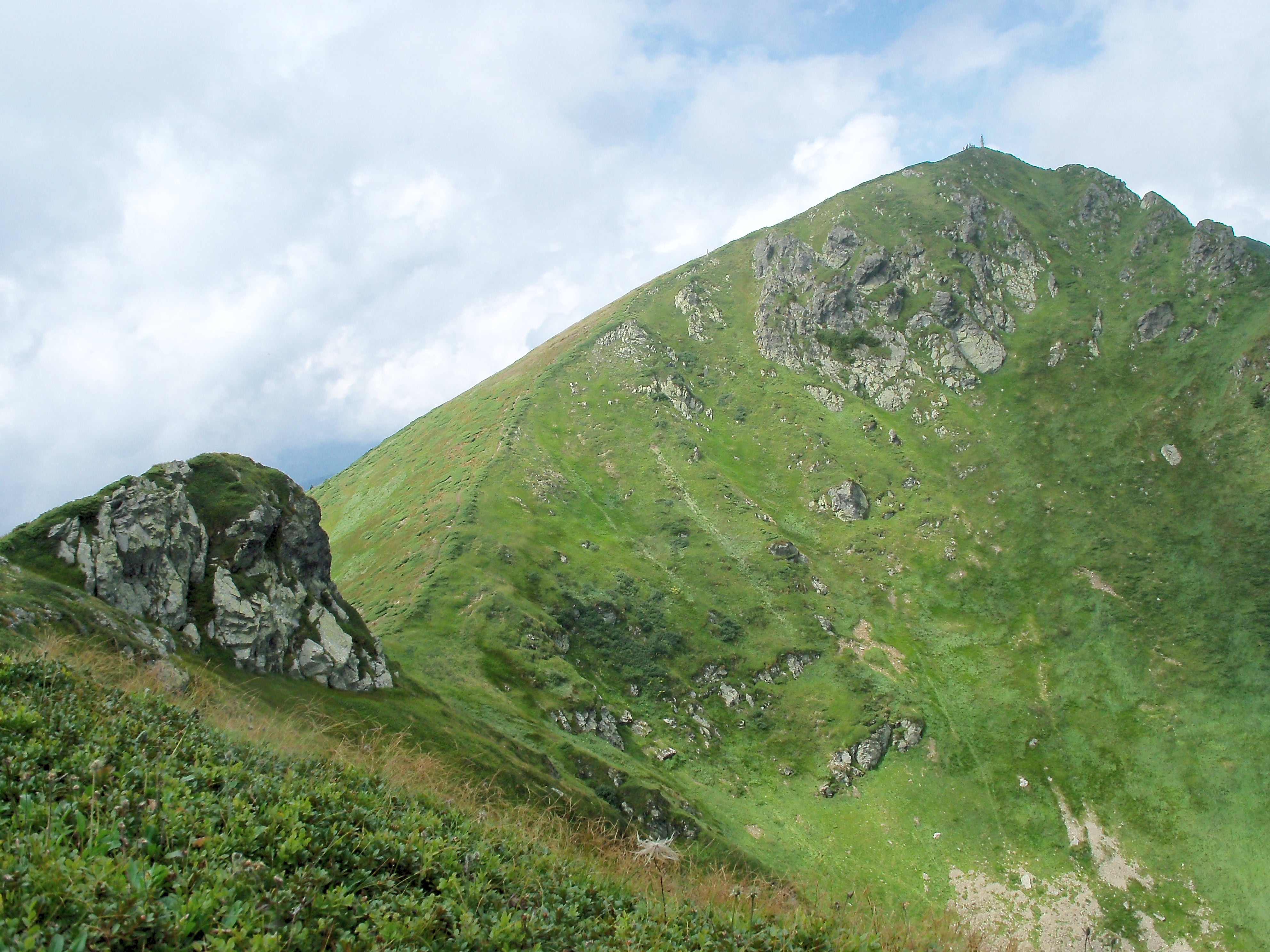 Pip Ivan Marmorosky